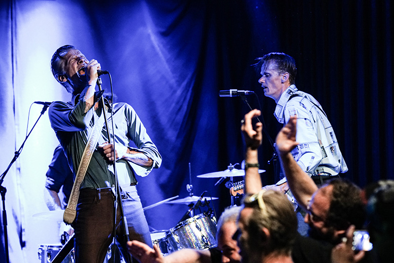 Powersolo in Aarhus, Denamark 2017